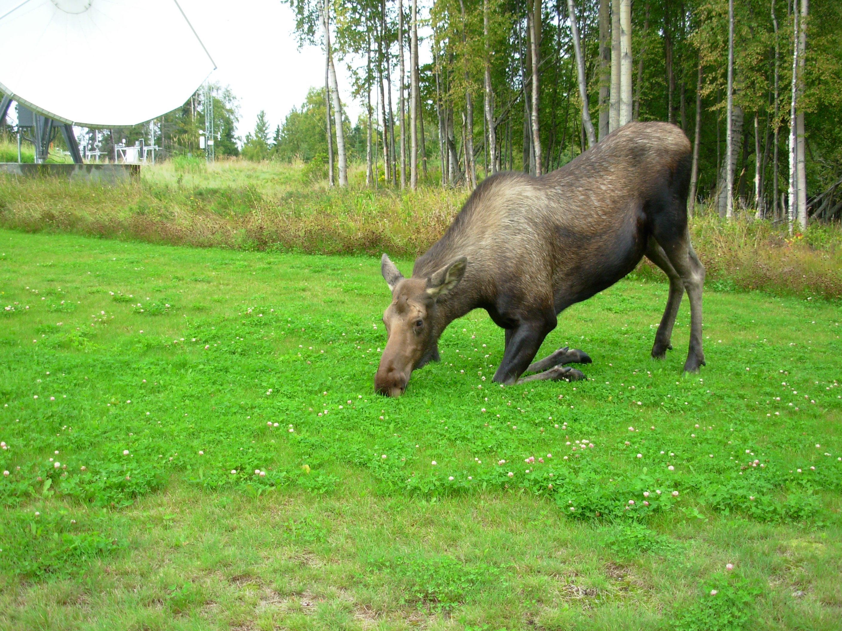 Cow moose kneeling to reach the clover. Note satellite dish and weather gear in background. Alaska, Anchorage area. 2006 September 8.